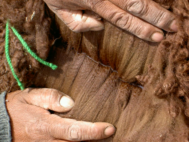 Great fiber/wool from "Wayra", an alpaca owned by Knapper Alpakka in Norway.